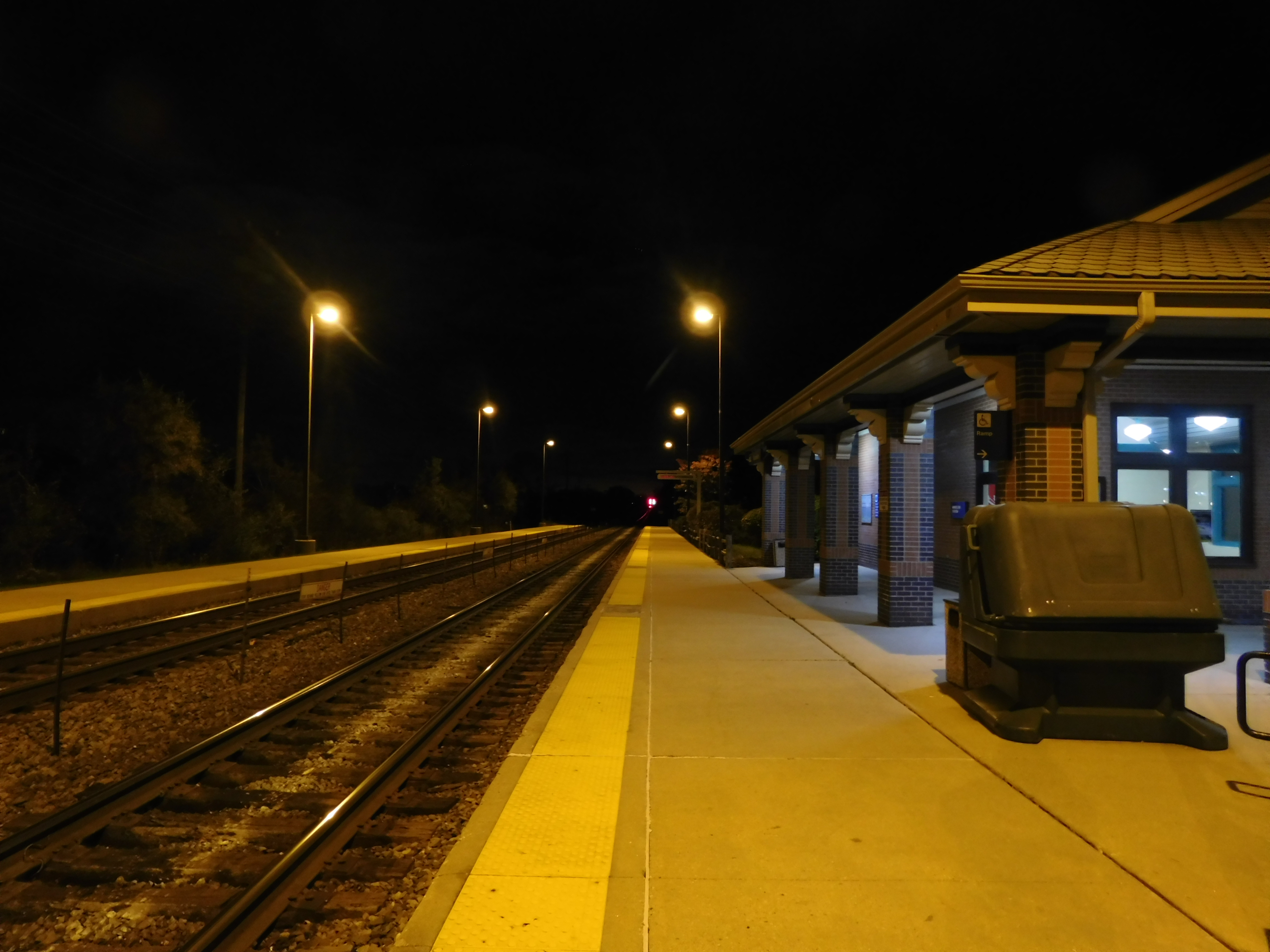 The Mundelein station for Metra's North Central Service in November 2016.